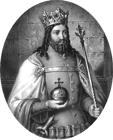 Kazimierz III Wielki